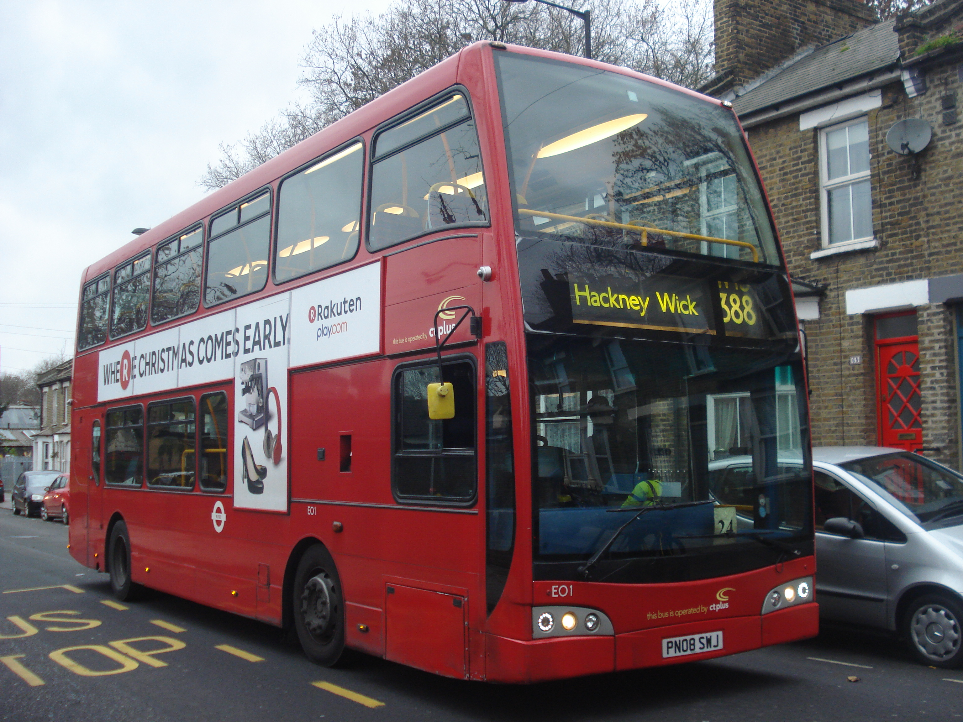 CT Plus EO1 on Route 388, Trowbridge Estate (Hackney Wick)